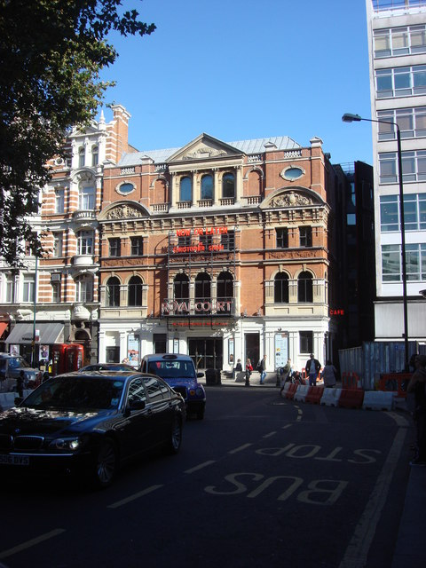 Royal Court Theatre The present Royal Court Theatre was built on the east side of Sloane Square, replacing an earlier building, and opened in 1888. It was designed by Walter Emden and Bertie Crewe, constructed of fine red brick, moulded brick, and a stone facade in free Italianate style.